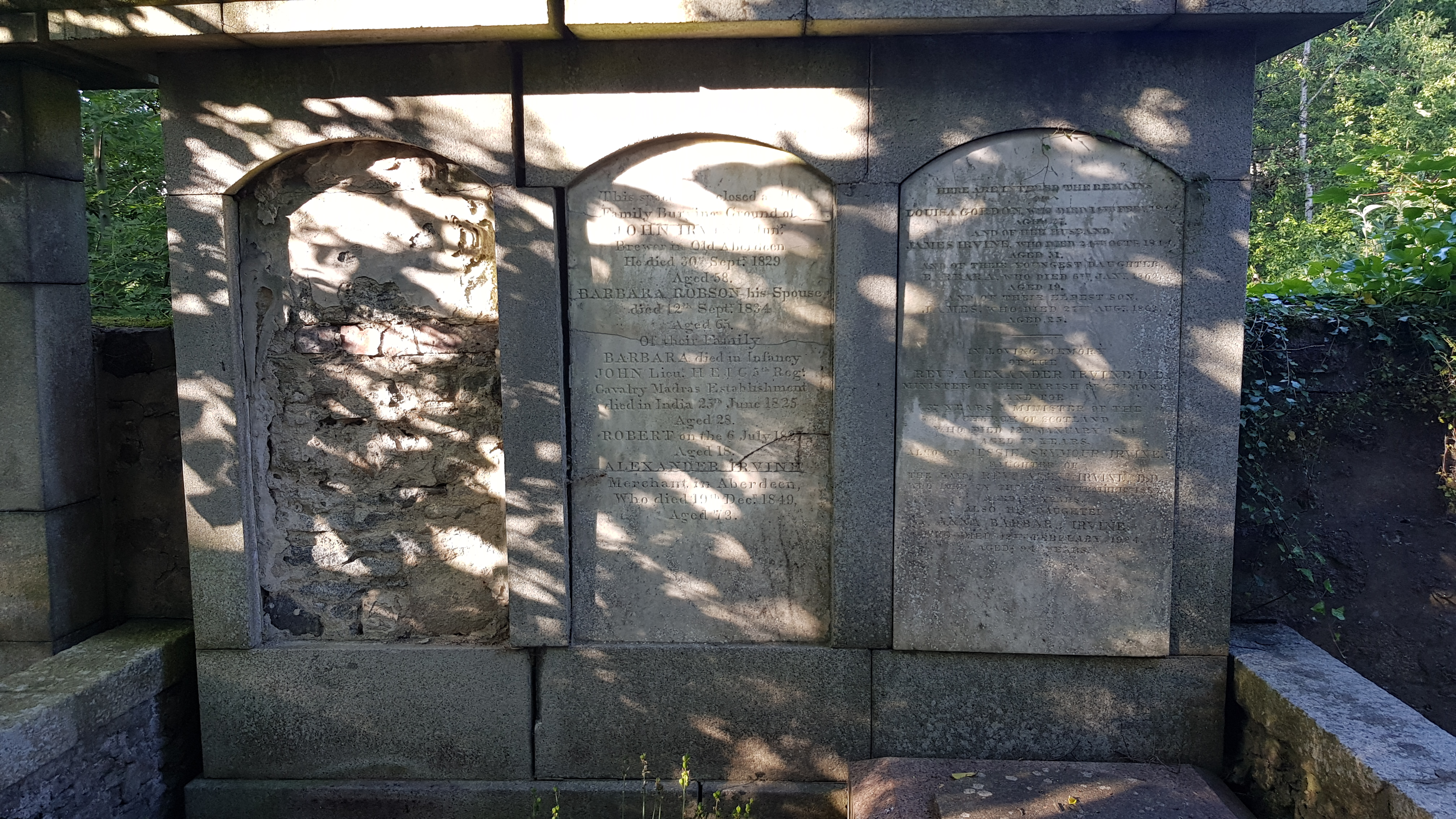 the family grave of Rev. Alexander Irvine at St Machar Cathedral